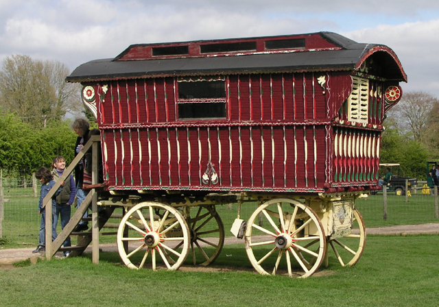 Gipsy caravan, Fishers Farm.